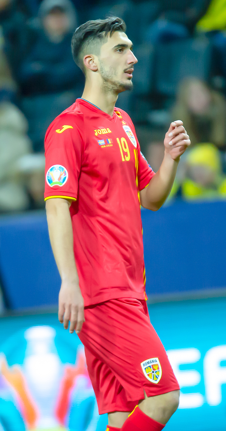 UEFA EURO qualifiers Sweden vs Romaina:Andrei Ivan